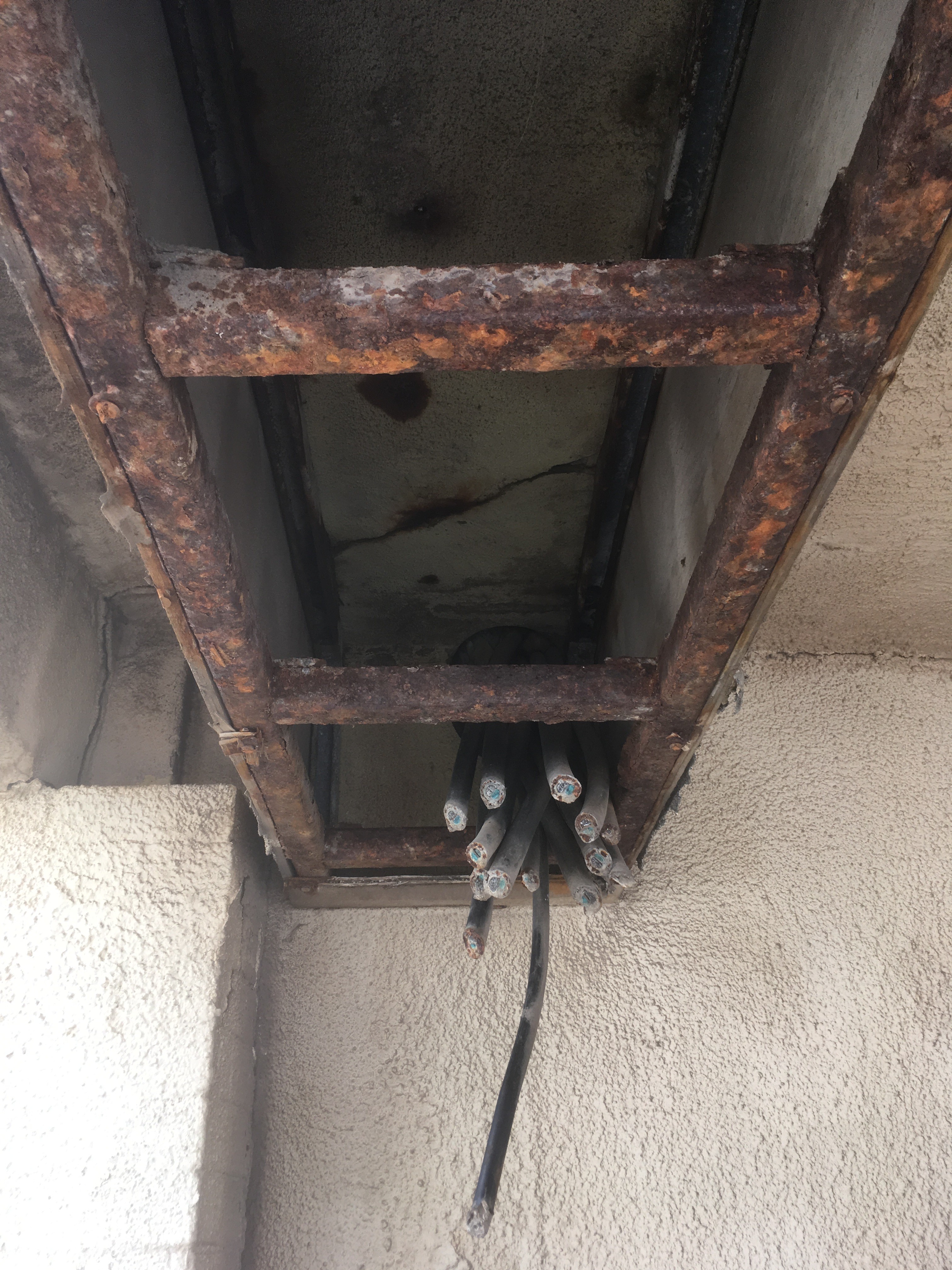 Corroding member at Bispham NW England exacerbated by sea salt